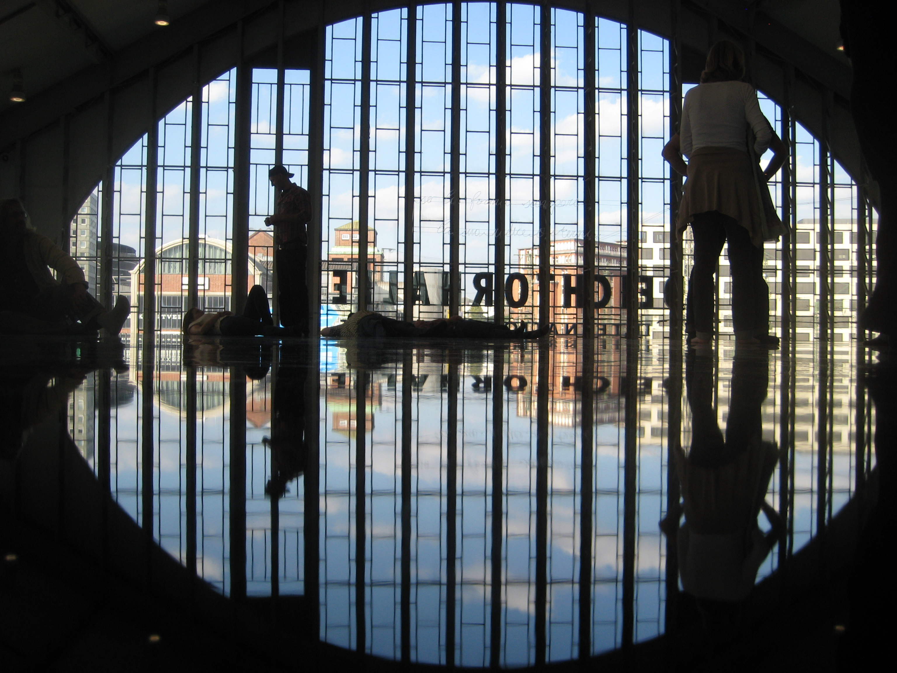 An impression from the Horizon Field Hamburg, showing reflections of the Deichtorhallen architecture, the city, and visitors.